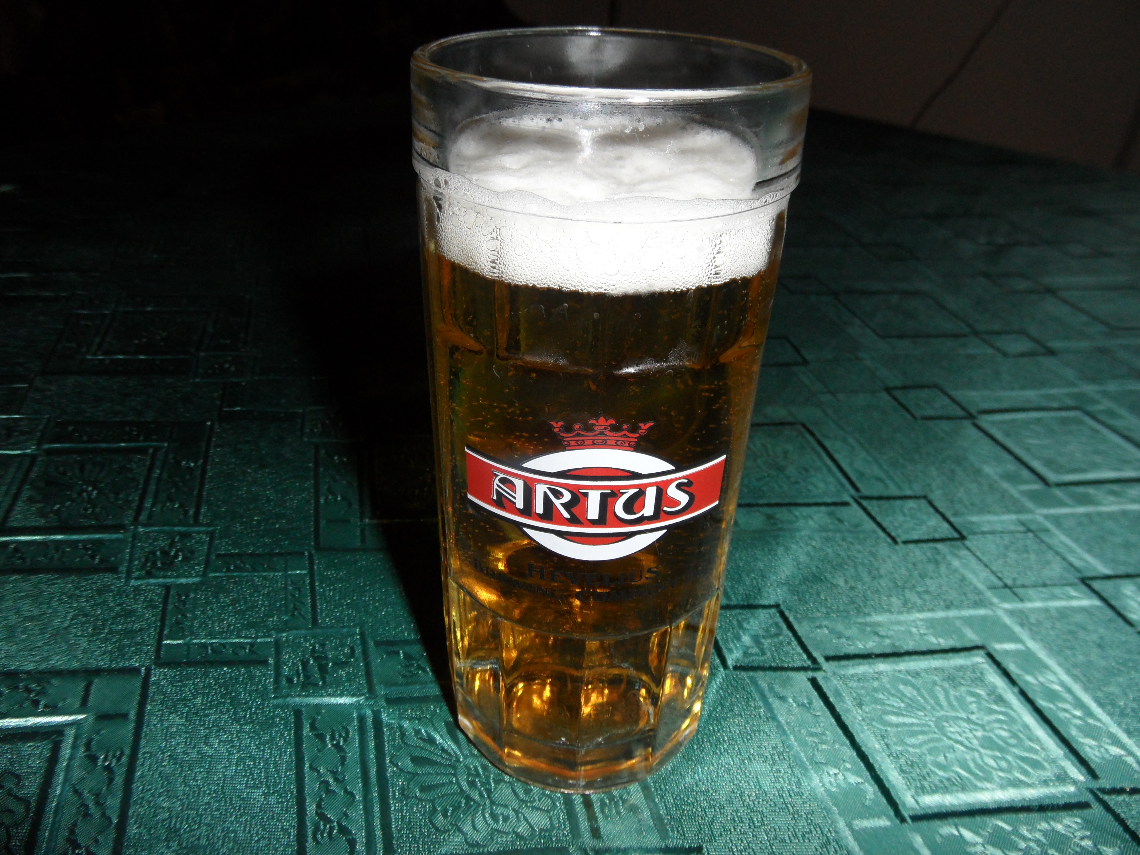 Artus beer